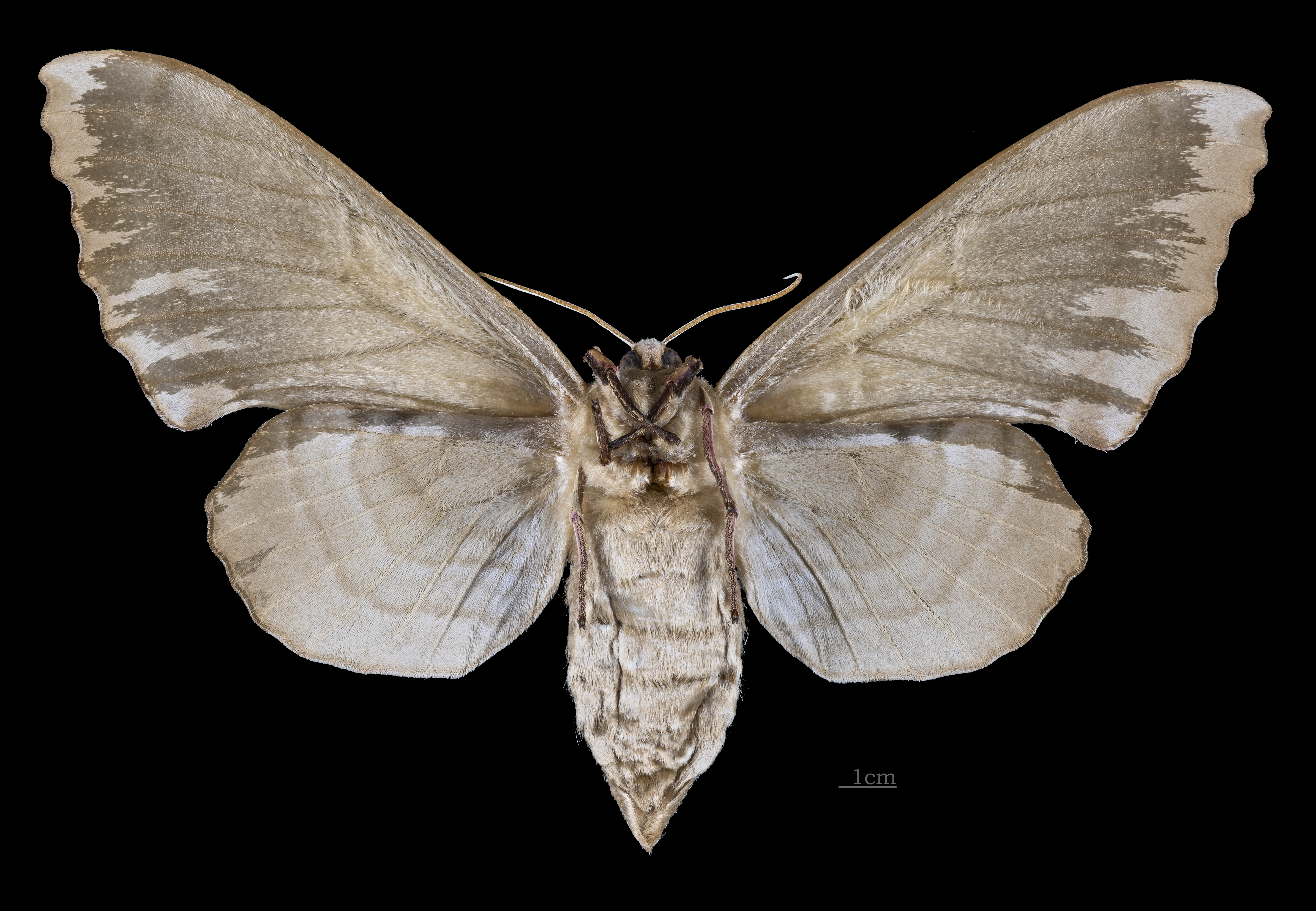 Laothoe austauti - △ Ventral side Collection of the Mathematician Laurent Schwartz